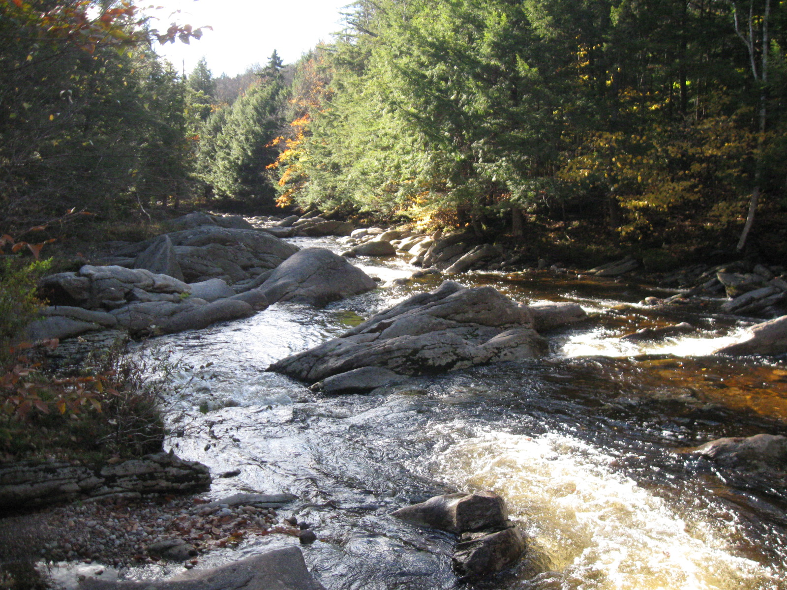 Ledges on the Fowler River in Grafton County